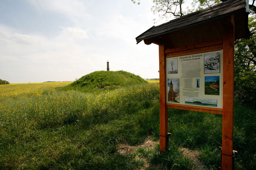 Mound in Chotoun (Bonze Age)